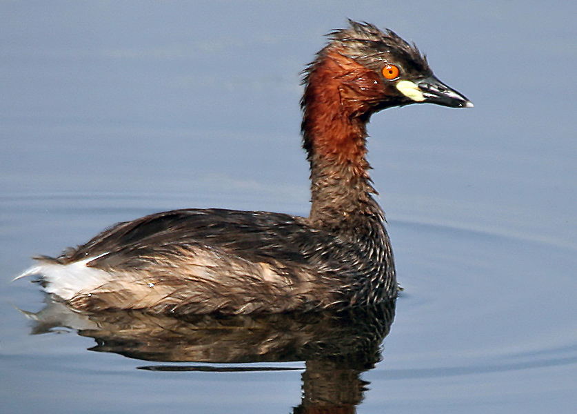 Little Grebe or Dabchick Tachybaptus ruficollis at Lotus Pond, Hyderabad, India.